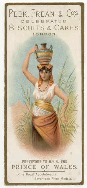 Peek Frean: Bookmark of Egyptian woman with water jar.